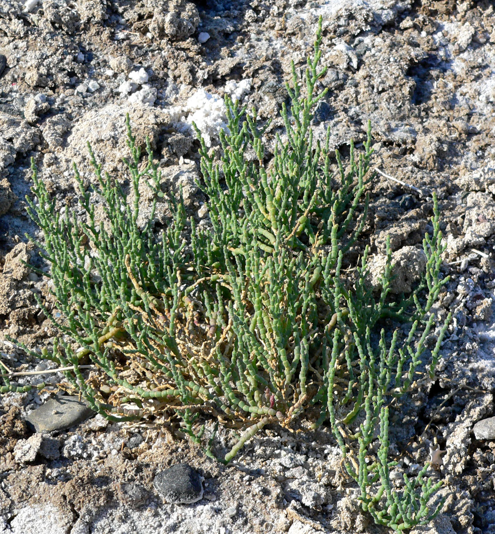 Allenrolfea_occidentalis (iodine bush) at Badwater, Death Valley